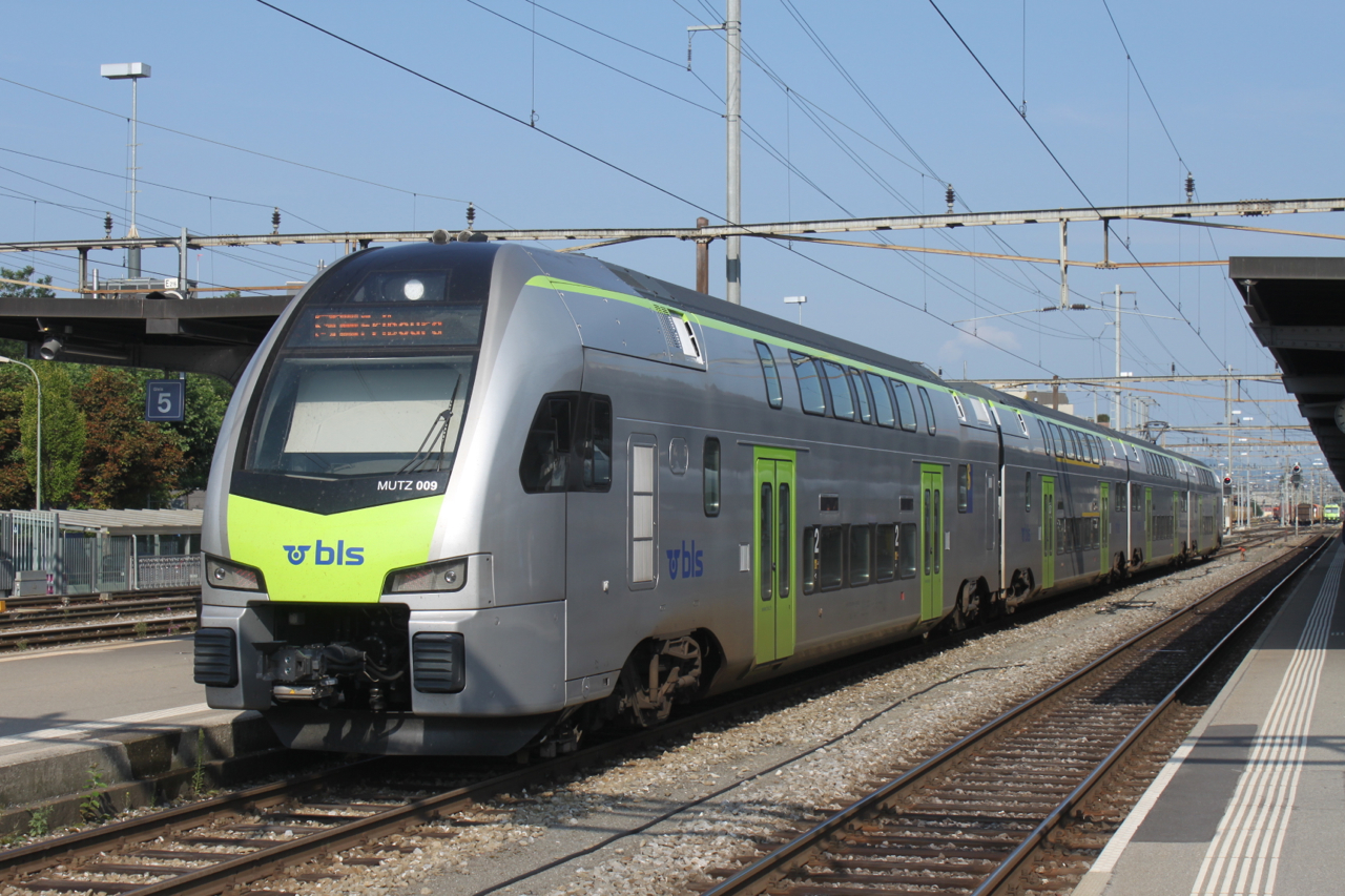 BLS RABe 515 009 at Thun railway station.